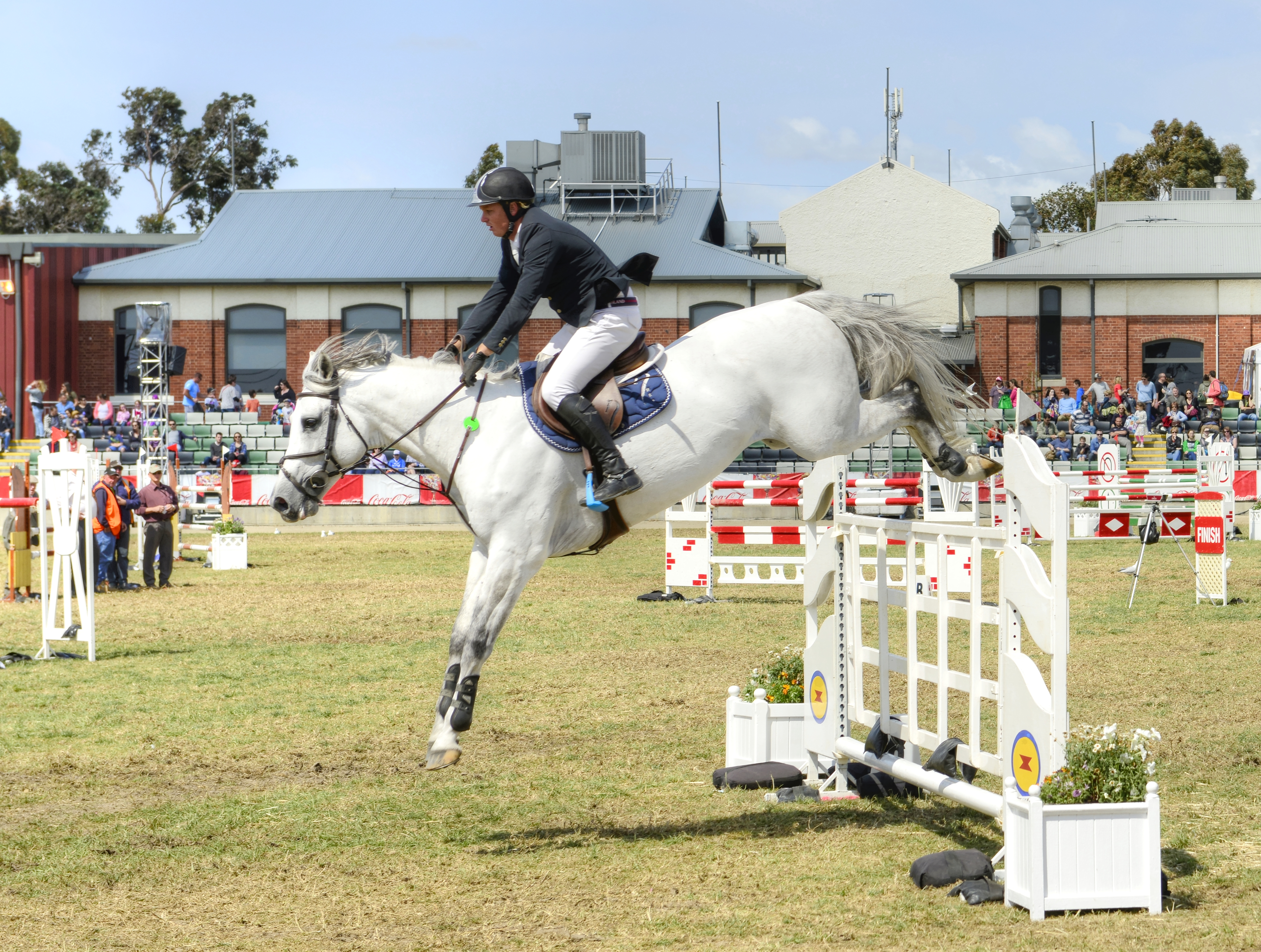 2013 Royal Melbourne Show